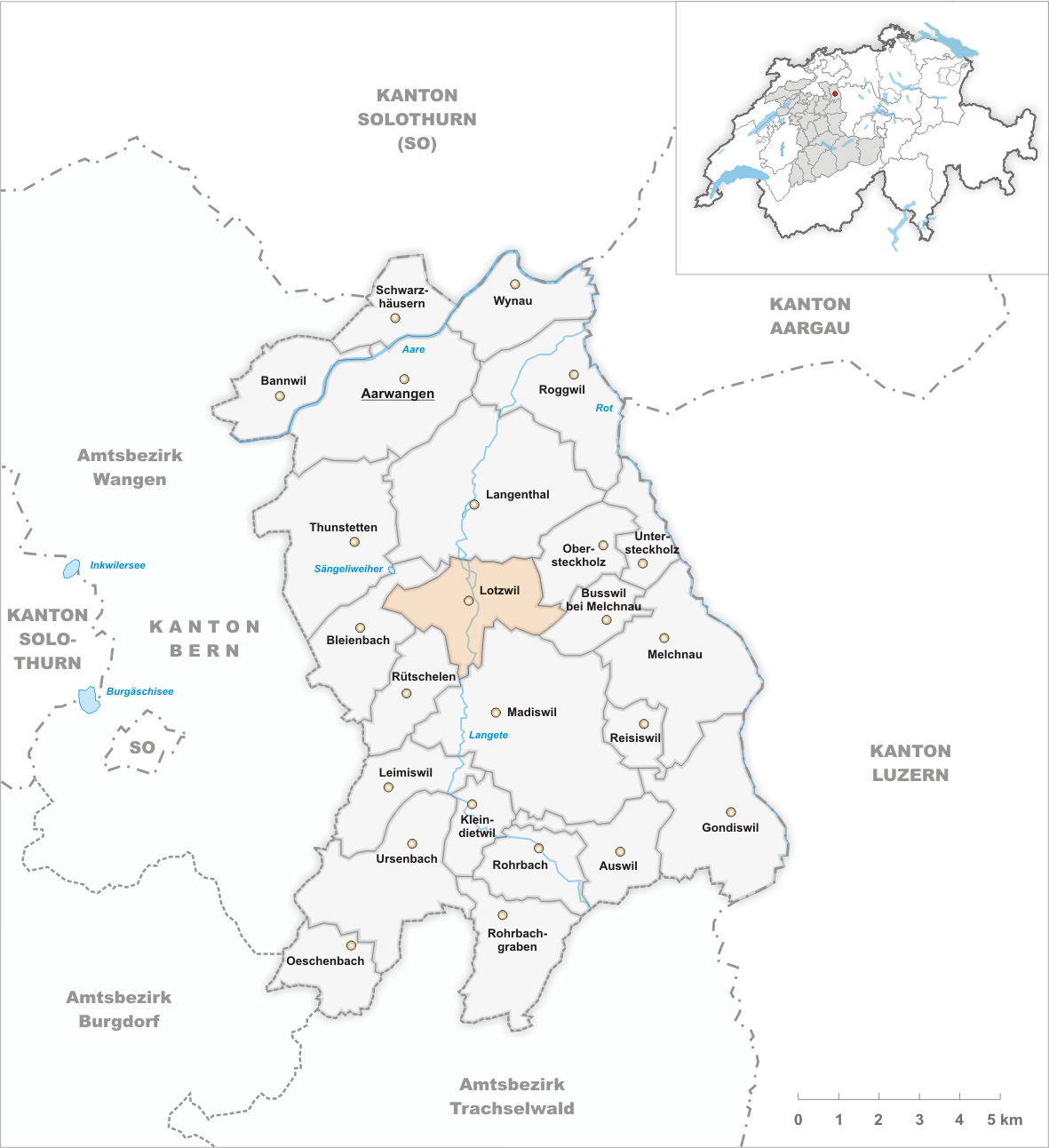 Municipality Lotzwil